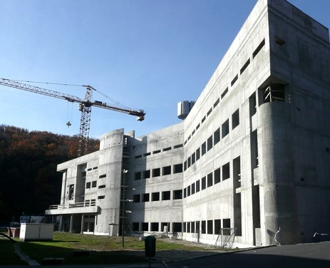 Building "J" of the Cyclotron Centre of the Slovak Republic in year 2011